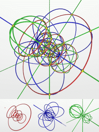 Hypersphere parallel meridian and hypermeridian